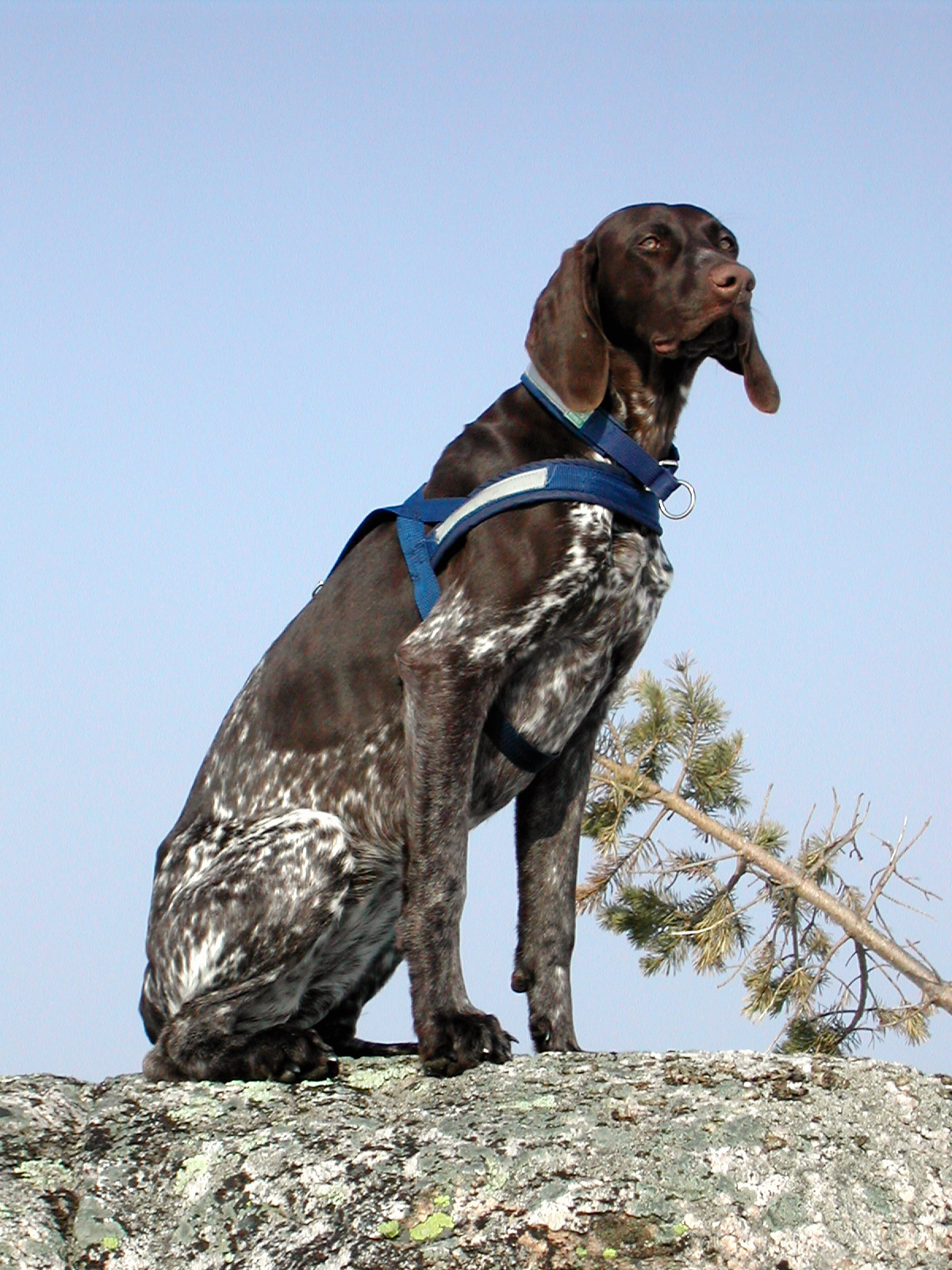 The German dog breed Vorstehhund (shorthair). Used as sled dog. This is a female dog.